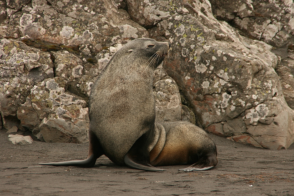 A male antarctic fur seal Arctocephalus gazella on King George Island, Antarctica